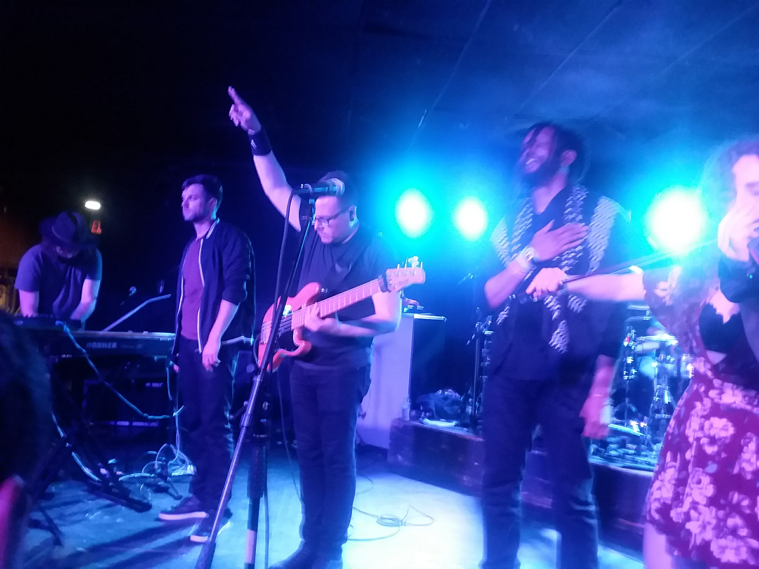 Flobots performing live at the Bottleneck in Lawrence, Kansas on June 8, 2017